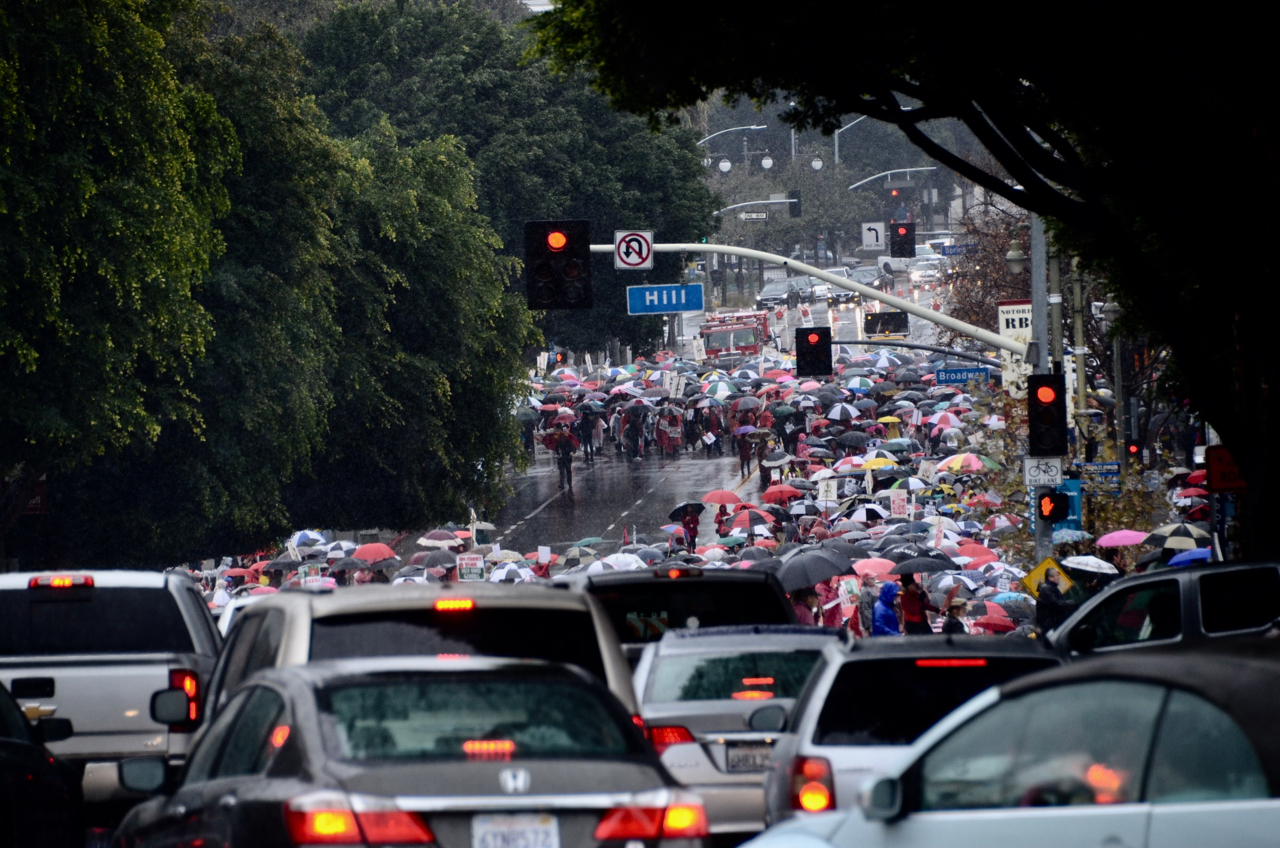 On Jan. 14, 2019, the first day of the UTLA strike, teachers march on downtown, Los Angeles. Photo credit: Mike Chickey